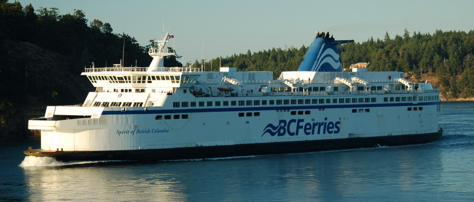 BC Ferry vessel 'Spirit of British Columbia'. Photo by Eric Lee, taken July 18, 2006 while aboard sister ship 'Spirit of Vancouver Island' through Active Pass.